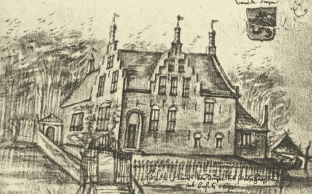 Drawing of "Huis ter Duyn" in Zevenhuizen in the Netherlands.